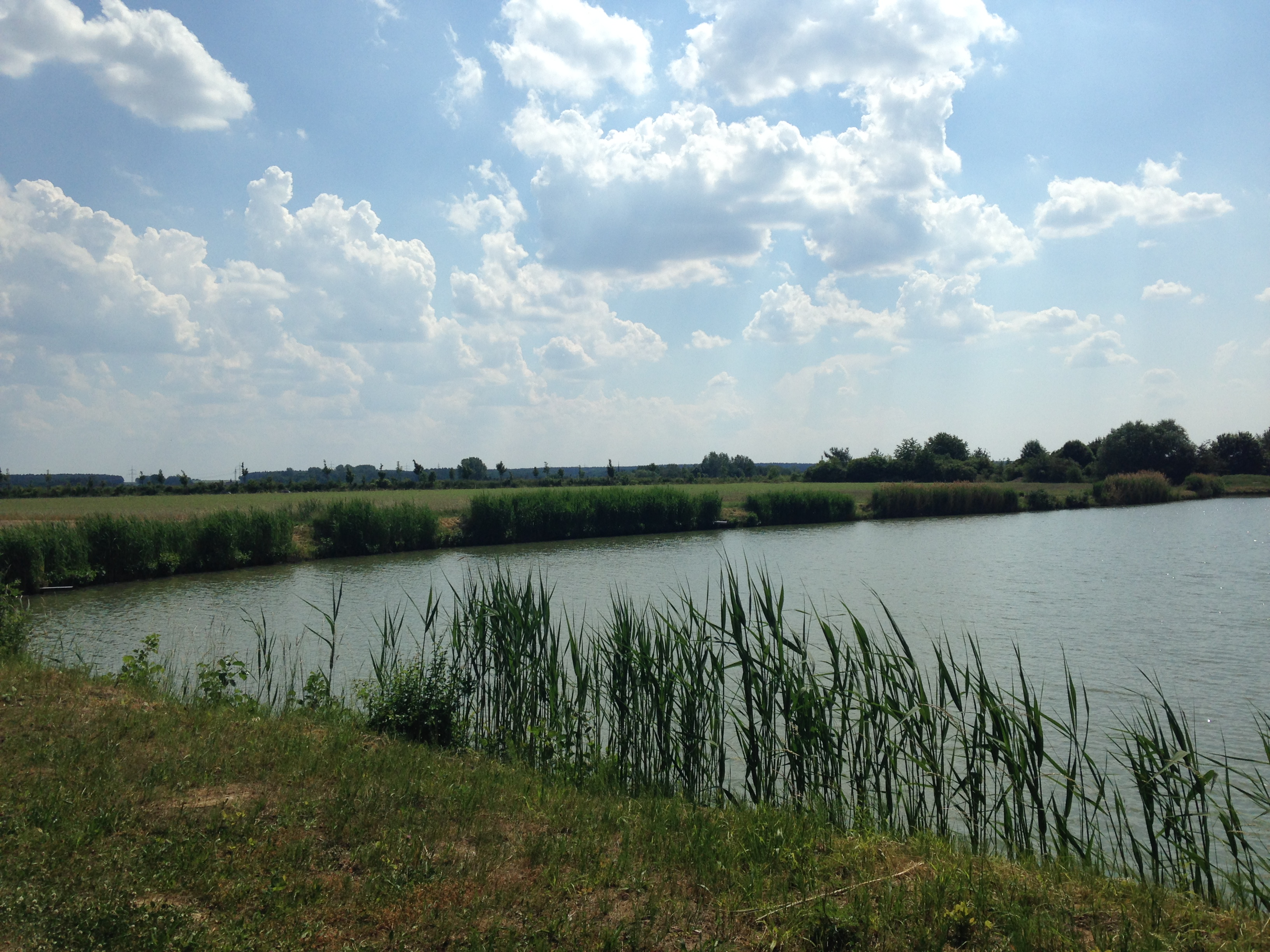 Herzogenaurach_adidas